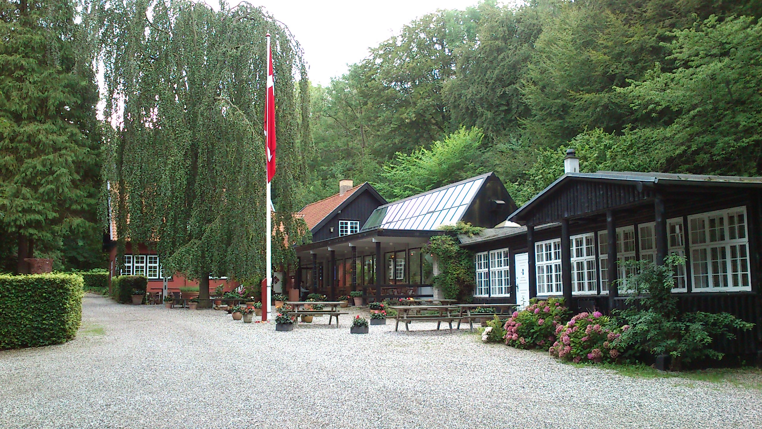 Restaurant Thors Mølle. The restaurant is situated in an old watermill, at the stream of Varnabækken, in Marselisborg Forests.